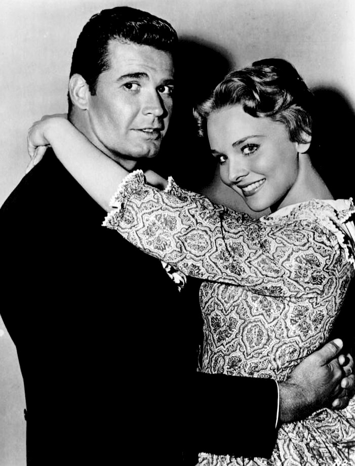 Photo of James Garner as Bret Maverick and guest star Diane McBain as Holly Vaughn from the television program Maverick.